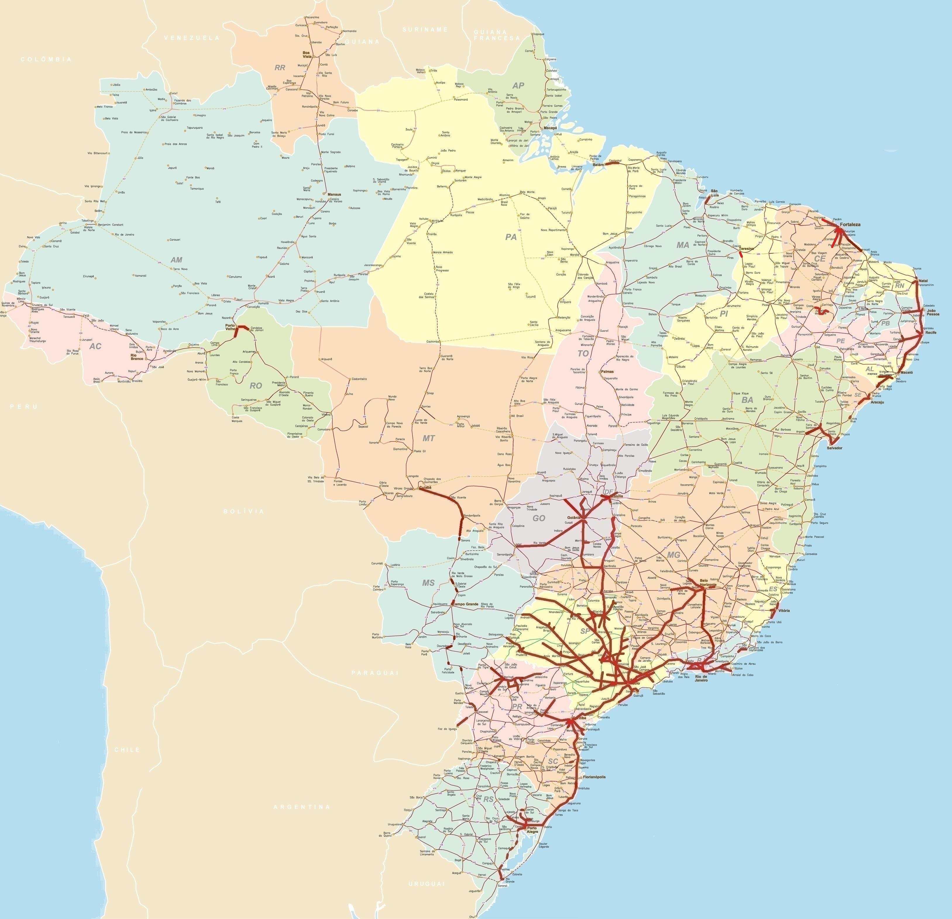 Road system in Brazil, with divided highways highlighted in red. The São Paulo state, which has state control of federal roads in its territory, makes its road network the best in the country.